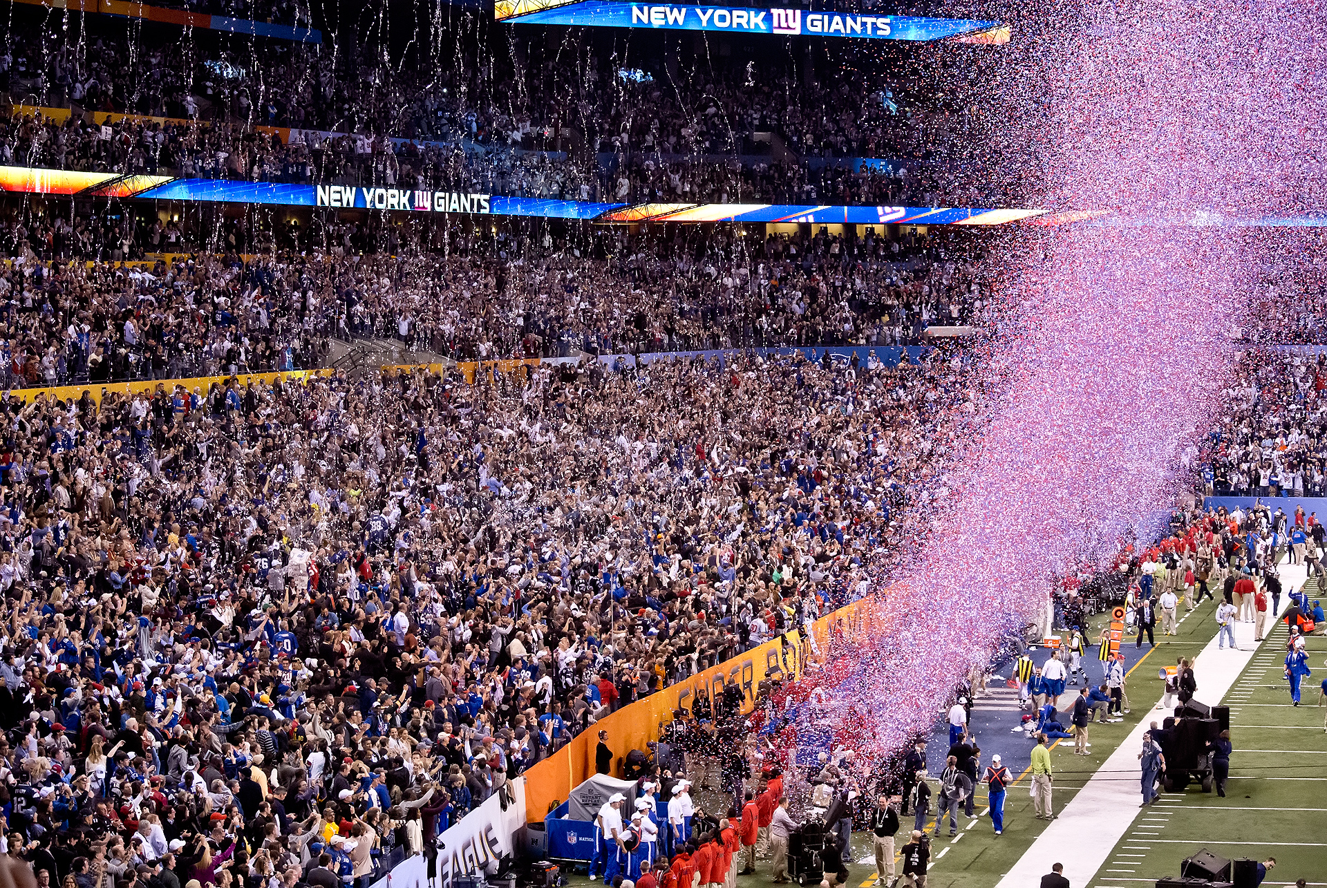 NY Giants win.